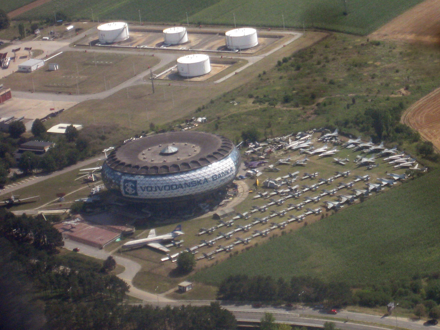 The Aviation Museum of Belgrade.